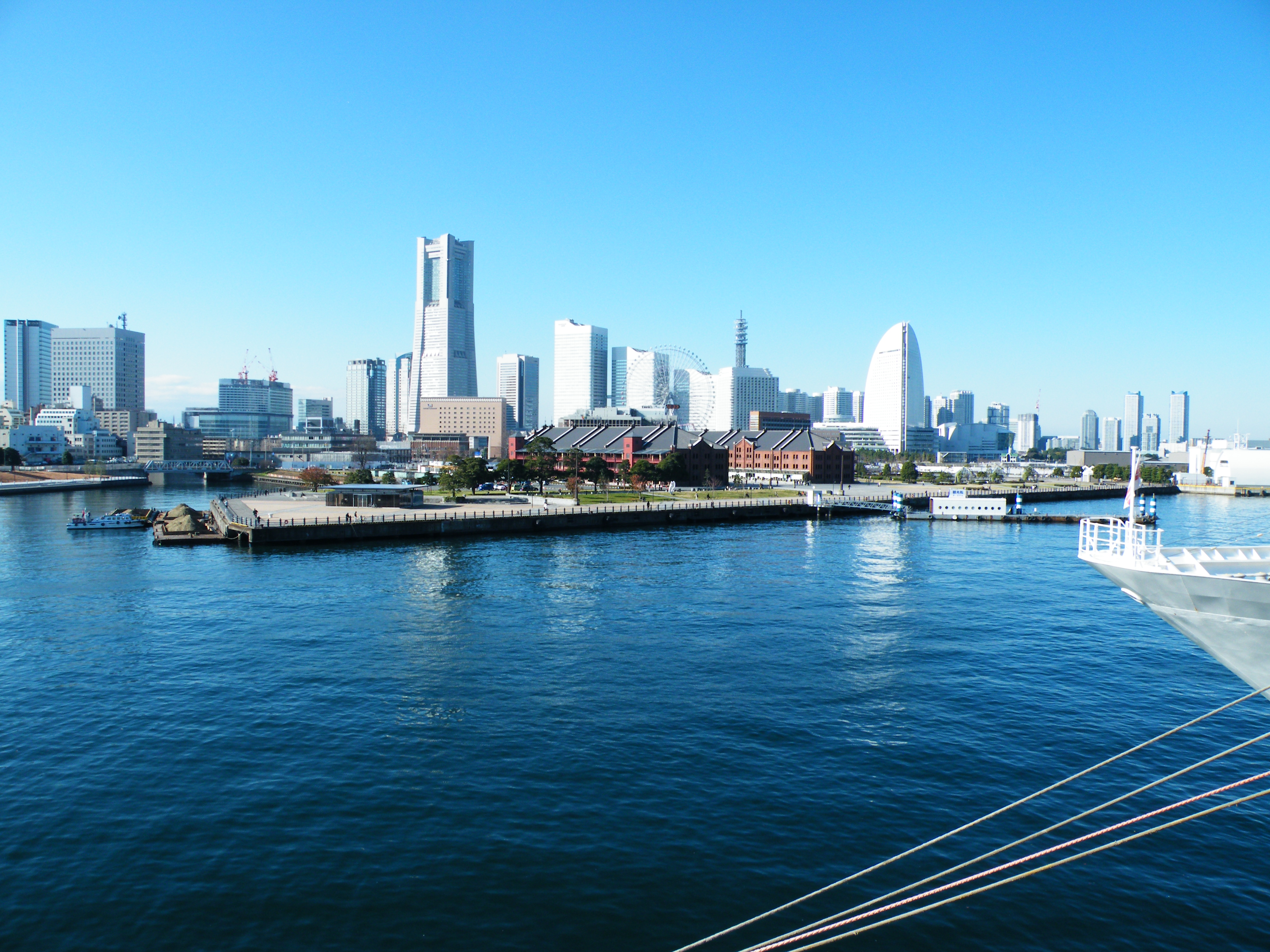 Minato Mirai 21, Yokohama, Japan. From left to right: Nisseki Yokohama, Landmark Tower (Japan's tallest skyscraper), Navios Hotel, Mitsubishi Heavy Industries, Aka-renga Soko (Redbrick Warehouse), Queen's Tower A, Queen's Tower B, Cosmo Clock 21 (ferris wheel), Queen's Tower C, Intercontinental Yokohama The Grand Hotel (half moon shaped building)